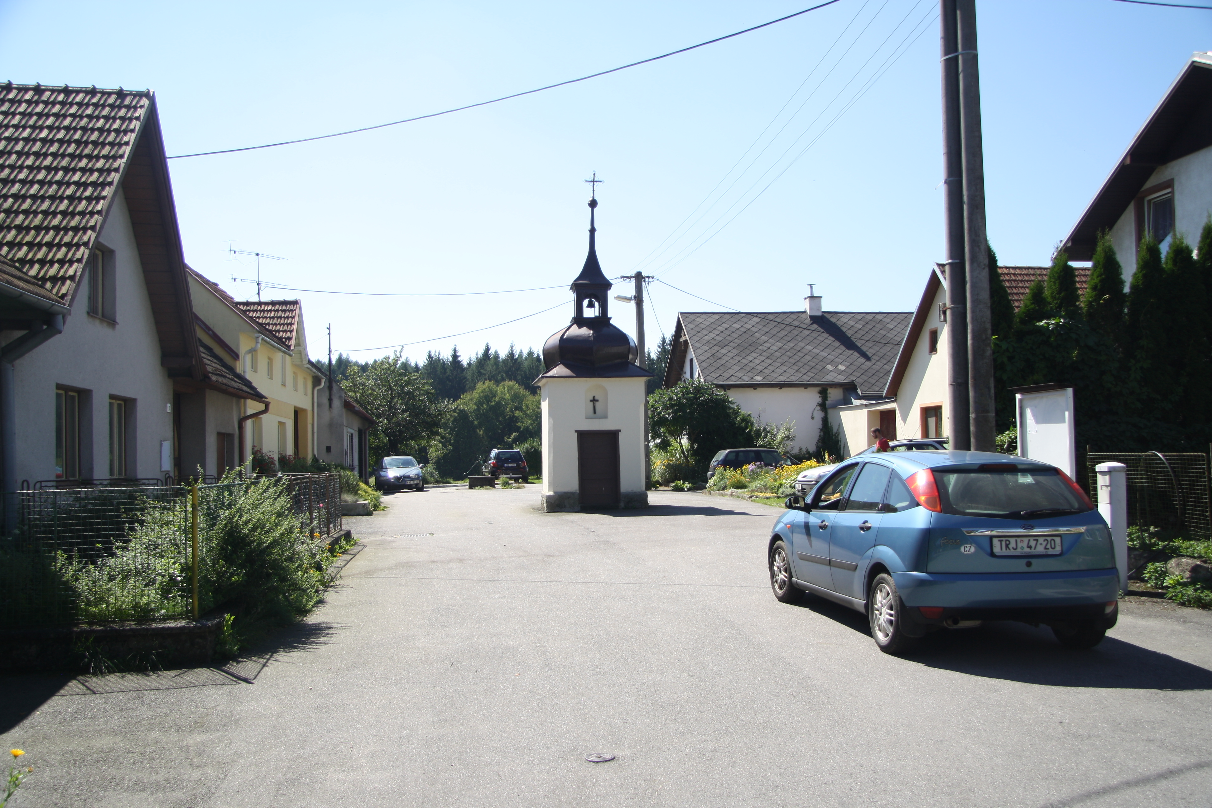 Center and chapel in Laštovičky, Rousměrov, Žďár nad Sázavou District.